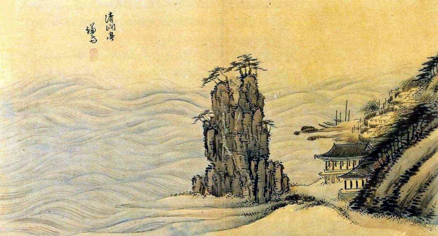 CheongGanJeong by Jeong seon